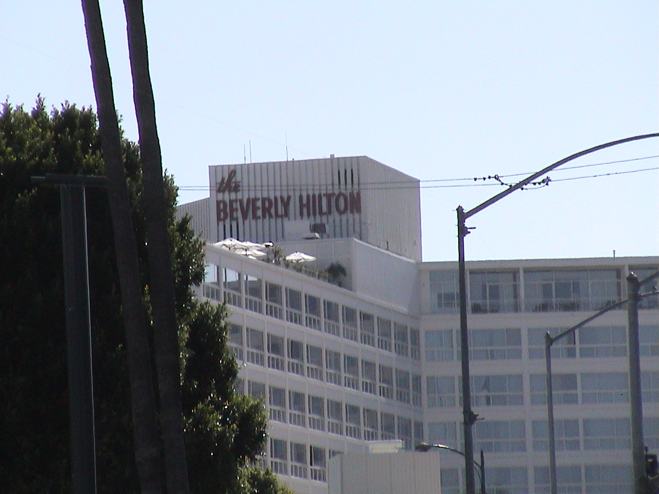 The Beverly Hilton's sign on the top of the building, shot from the intersection of Santa Monica Blvd. and Wilshire Blvd. in Beverly Hills, CA, USA.